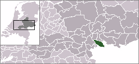 Locator map of Dutch municipalities (LocatieRijnwaarden.png)